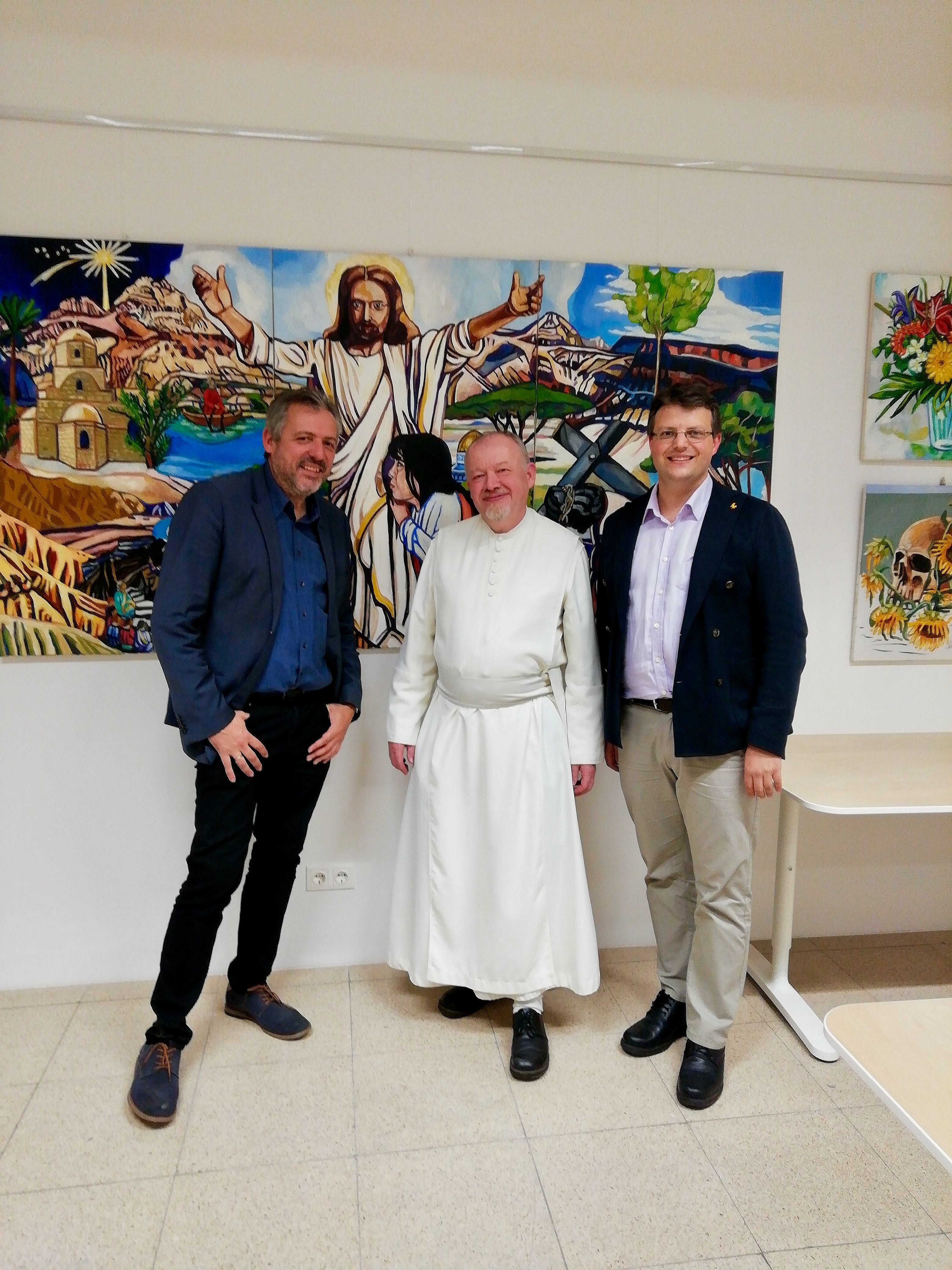 Werner Groiß, Kräuterpfarrer Benedikt, Matthias Laurenz Gräff. Veranstaltung im workingspace Gars am Kamp, Finissage Matthias Laurenz Gräff und Vortrag Kräuterpfarrer Benedikt